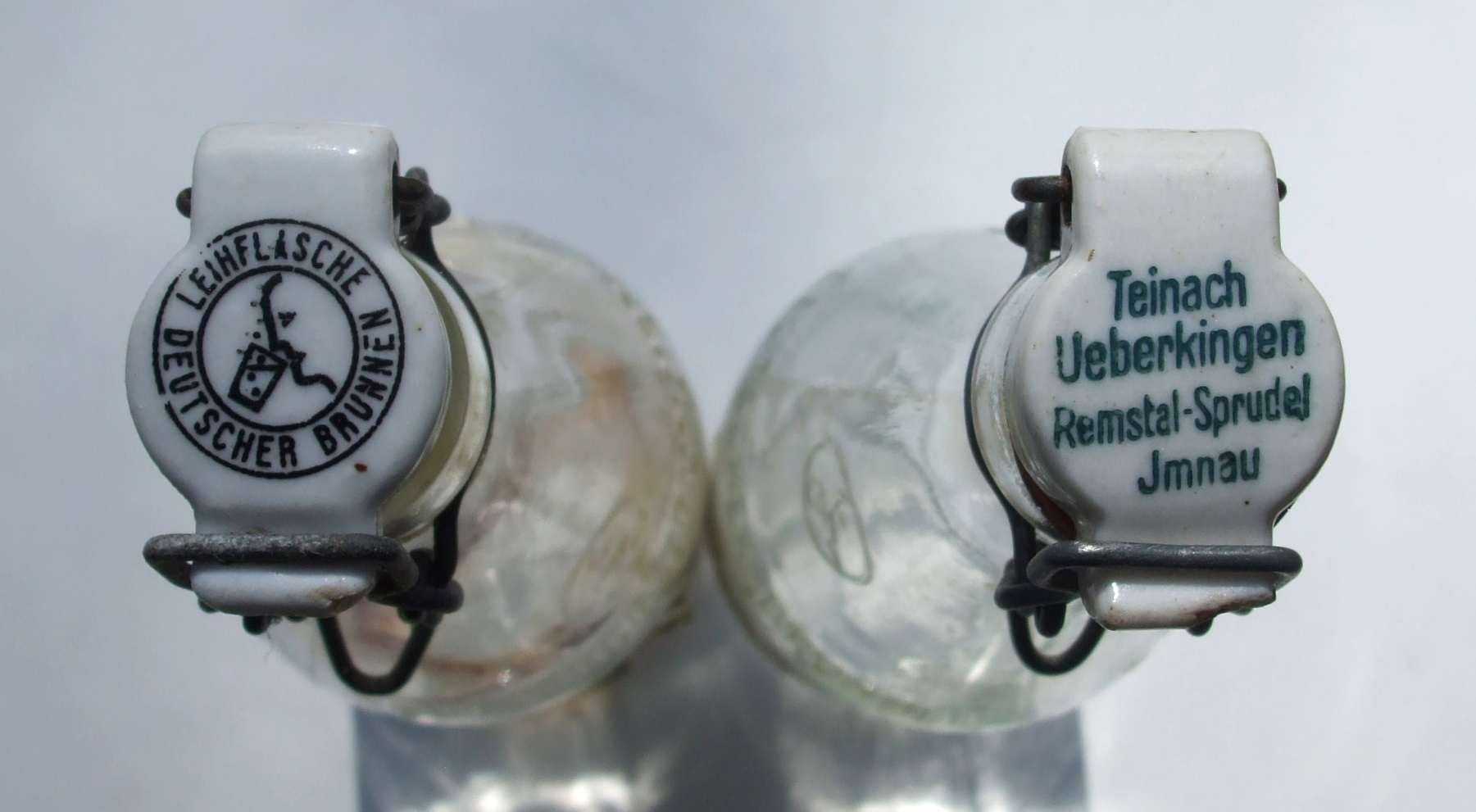 Swing top bottles